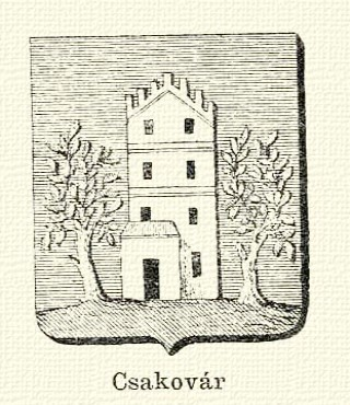 old coat of arms of Ciacova, in the Banat region (Timiş County)